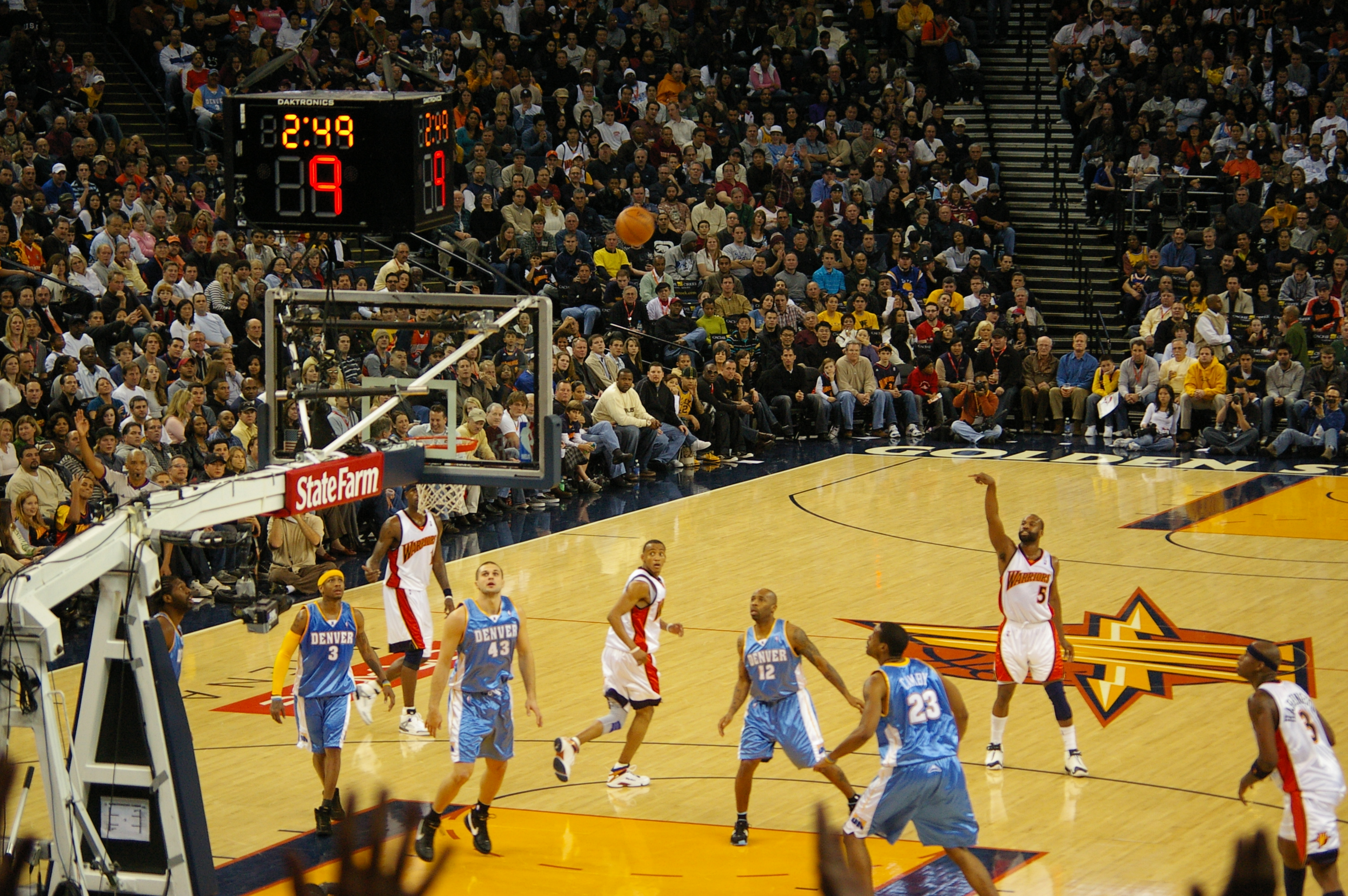 We lived and died by the 3 (oft-times premature and ill-advised)... and also the gut-wrenching 4th quarter comebacks... (which this game fell short of)